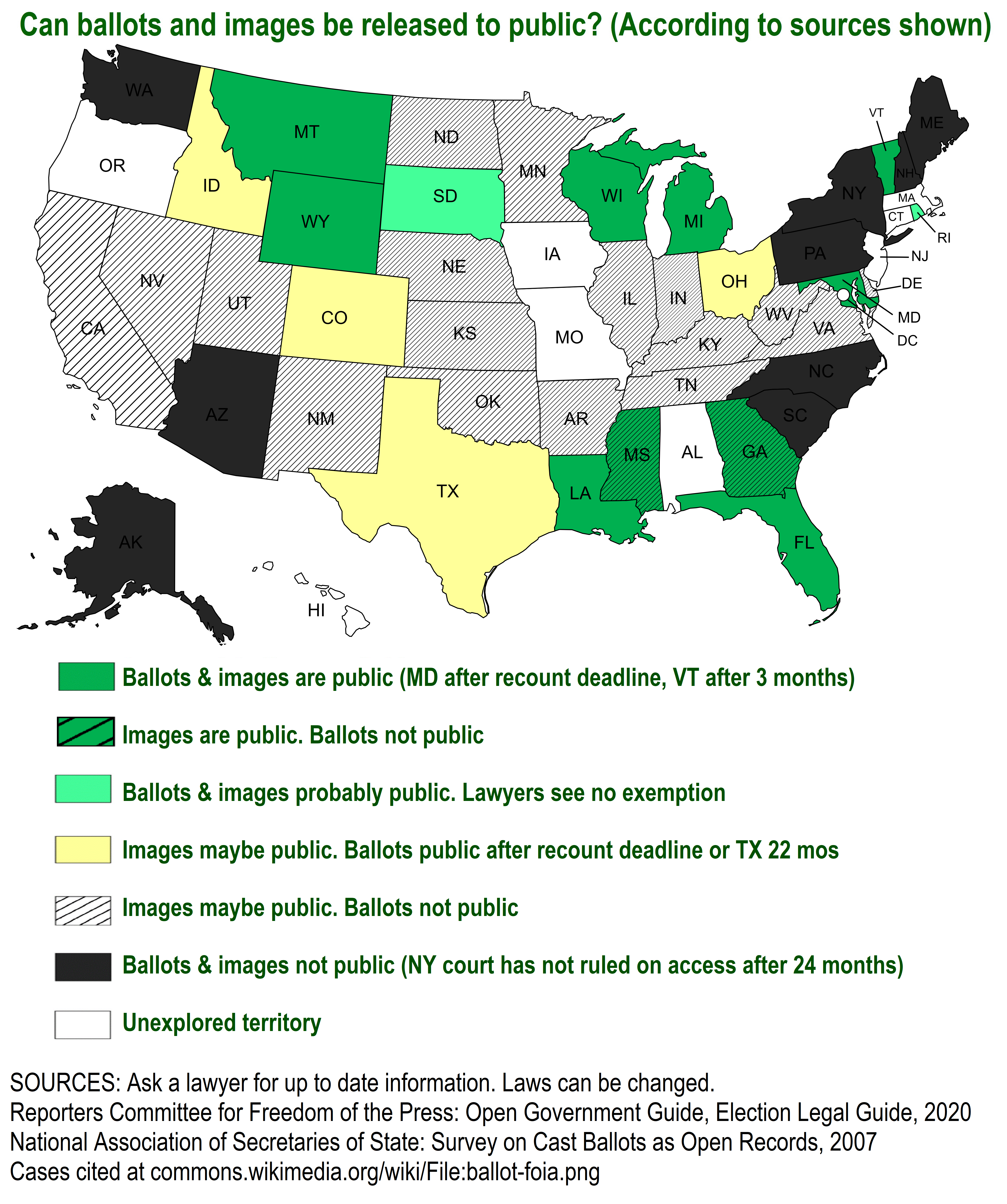 This map compiles information from lawyers writing in 2019-2020 for the Reporters Committee for Freedom of the Press (RCFP), a 2007 survey by the National Association of Secretaries of State (NASS), court opinions, and news articles. The table shows information available for each state. The map does not address public access or observation during a recount, since state rules are unclear and variable, and that access is not available to most members of the public. The table has information where available. If you know more information, please add it to the table or the Discussion page, with sources.